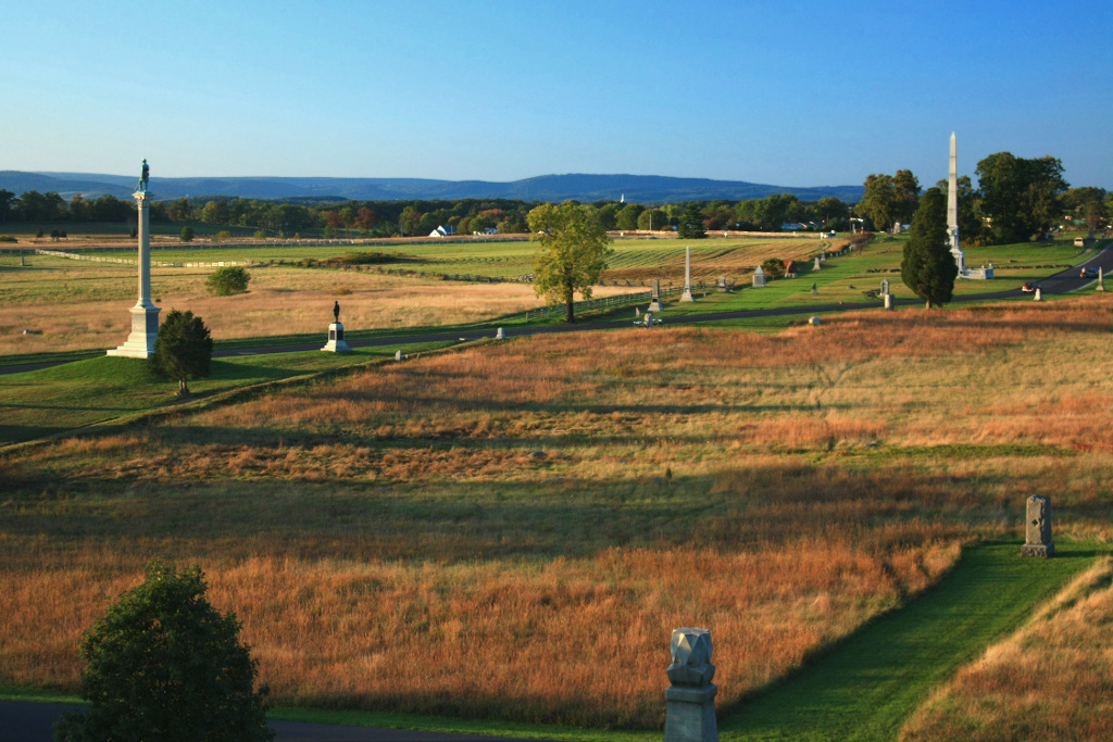 Gettysburg National Military Park, Pennsylvania, USA, battlefield monuments